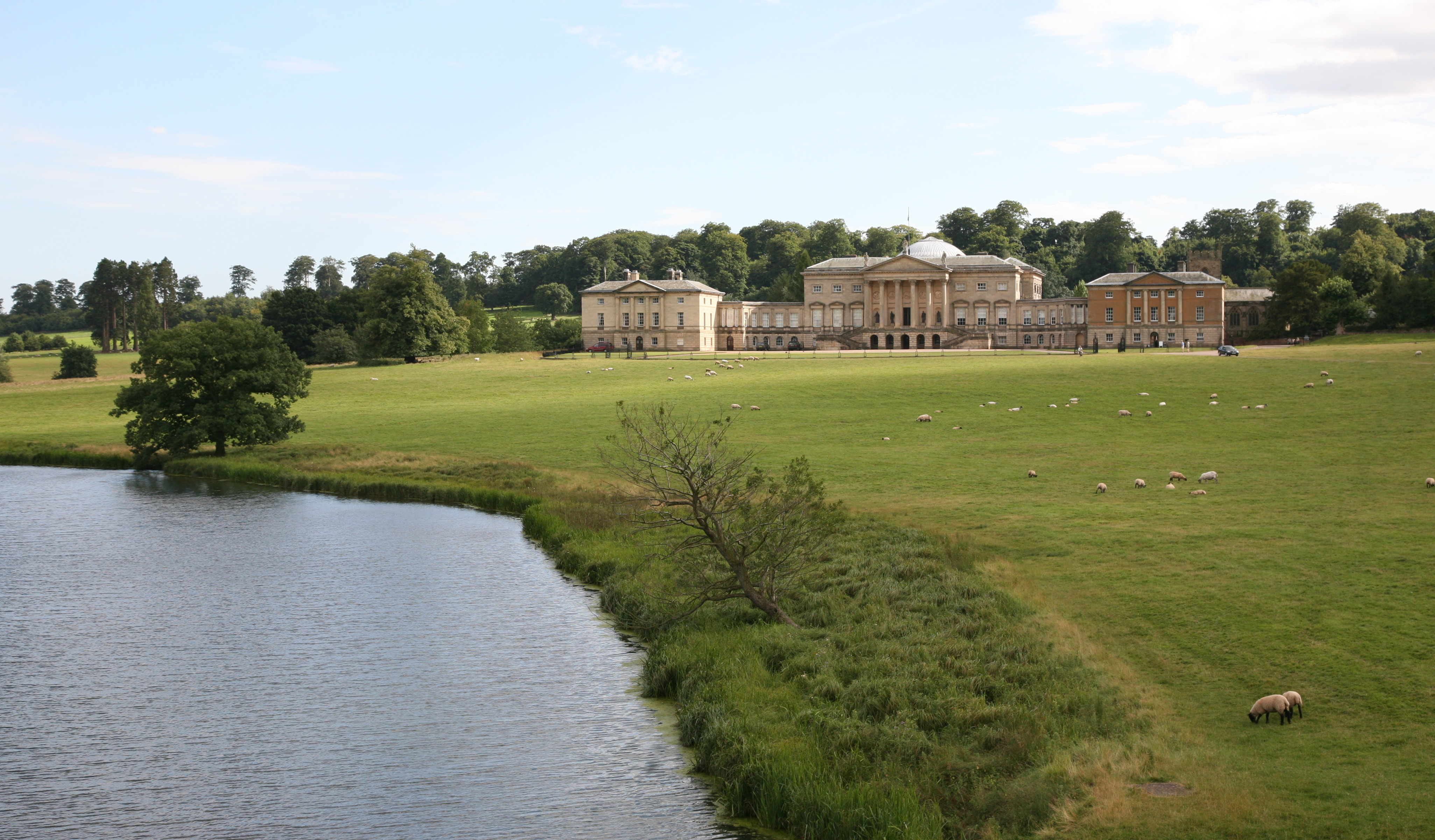 Kedleston Hall in Derbyshire. The house designed by James Paine, Matthew Brettingham and finished by Robert Adam.